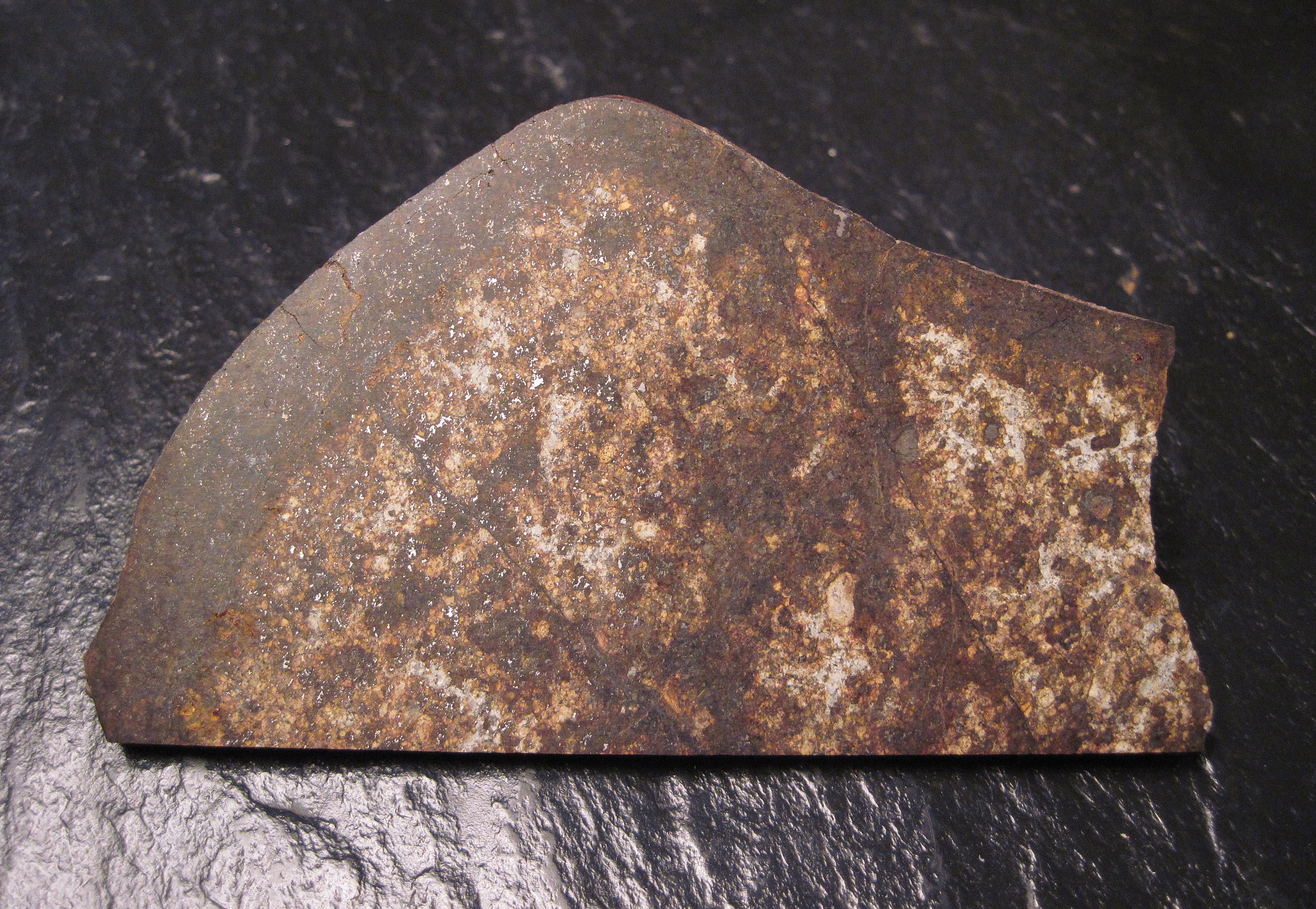 This historic meteorite fell in the spring of 1879 in South Gregory, Queensland, Australia. It is classified as an L6 Chondrite. This specimen is a fusion crusted half slice that weighs 72.3 grams making it the largest slice currently residing in my collection. Michael Cottingham purchased a large individual from Blaine Reed years ago and this piece was sliced from that mass. While Tenham isn't the most interesting meteorite from an aesthetic standpoint it does possess some attractive metal flaking in the matrix. And Tenham is undeniably the quintessential Australian chondrite from the 19th century making it a worthy entry into any collection. The mineral Ringwoodite, a high-pressure form of olivine, was first discovered in Tenham meteorites in 1969. Veins of Ringwoodite in this chondrite were produced by shock metamorphism. Large quantities of this mineral are thought to exist in Earth's mantle and the substance was named after the Australian earth scientist Alfred Ringwood.